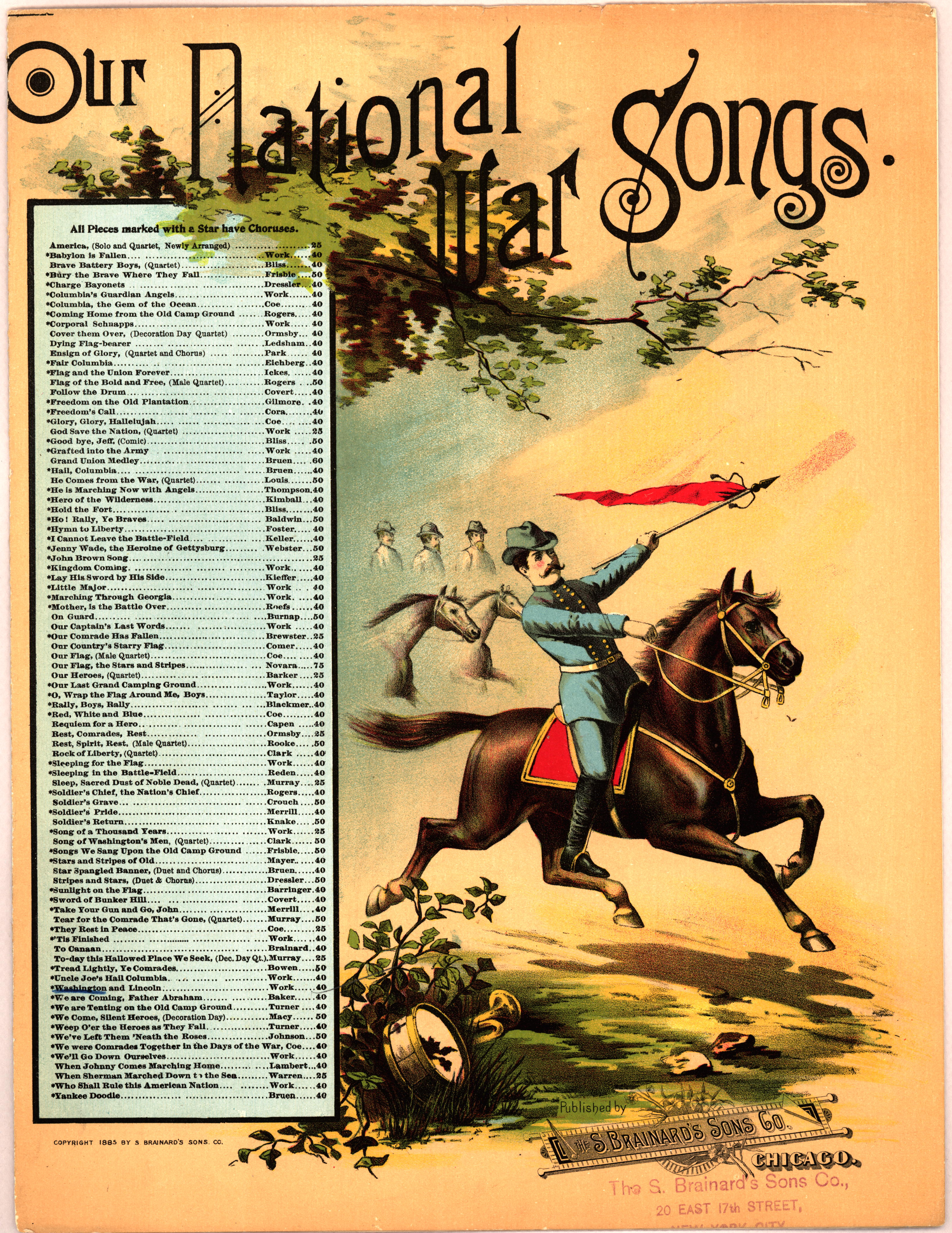 Our National War Songs (1885). Words and Music by Henry C. Work. Composition of strophic with chorus with piano and voice (solo and satb chorus) instrumentation. Subject headings for this piece include Military officers, Soldiers, Drums, Bugles, Patriotism, Civil War--Union, Campaigns & battles. First line reads "Bring the good old bugle, boys, we'll sing another song." Published 1885 by S. Brainard's Sons Co. in Chicago.